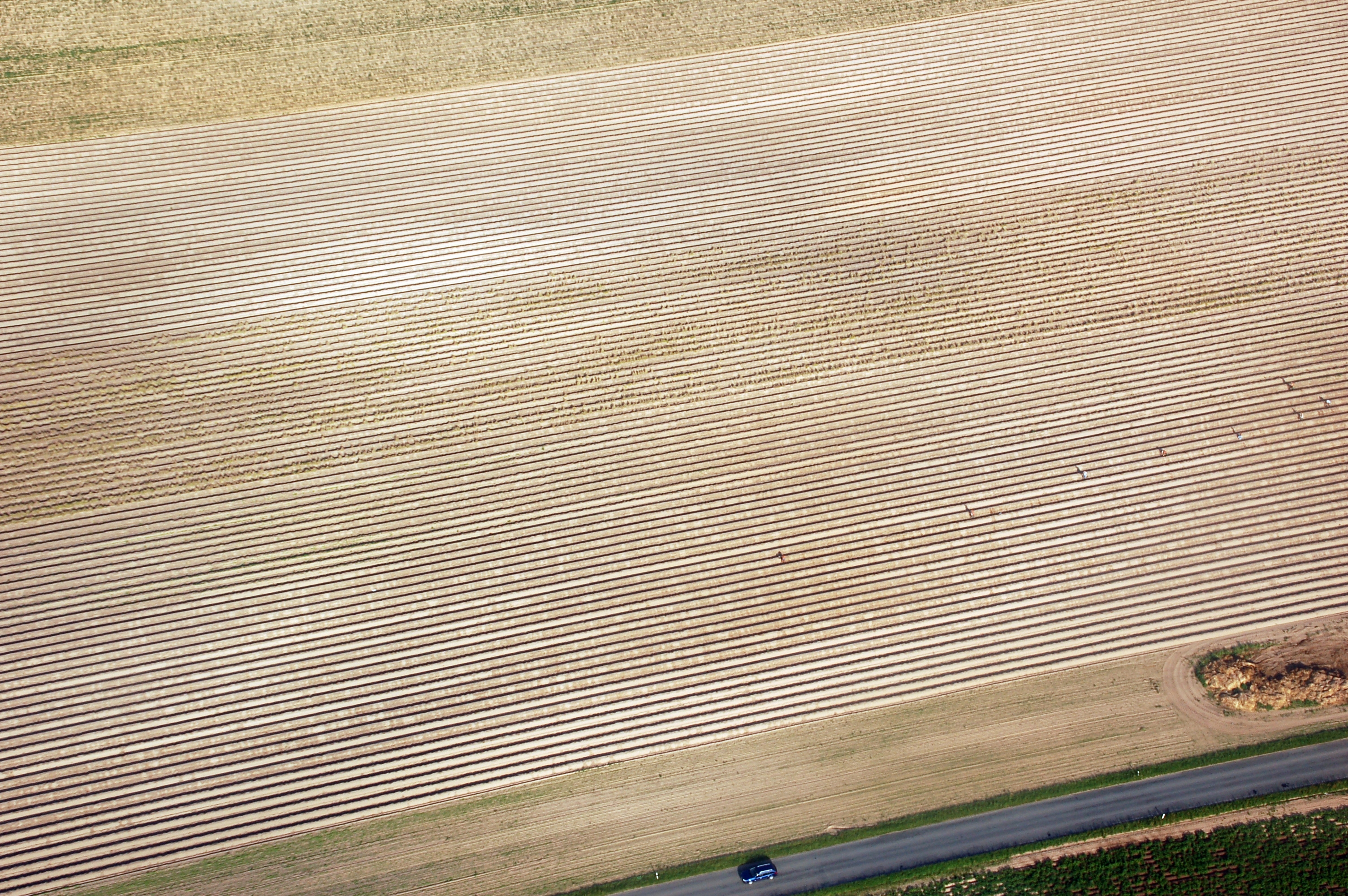 Aerial photograph of Asparagus plantations, Darmstadt-Arheilgen, Hesse, Germany